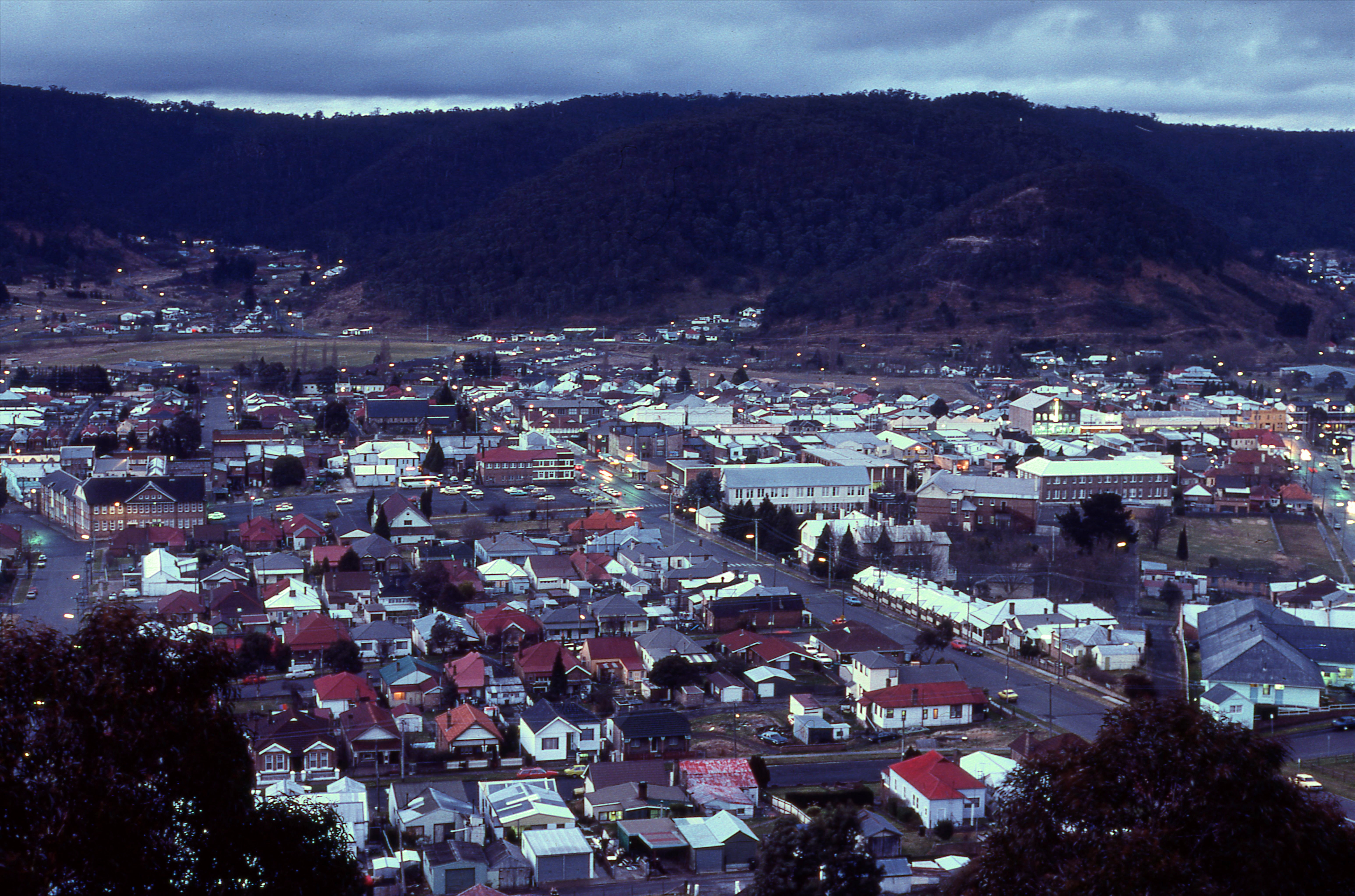 Lithgow at dusk, NSW, Australia (Kodachrome slide)